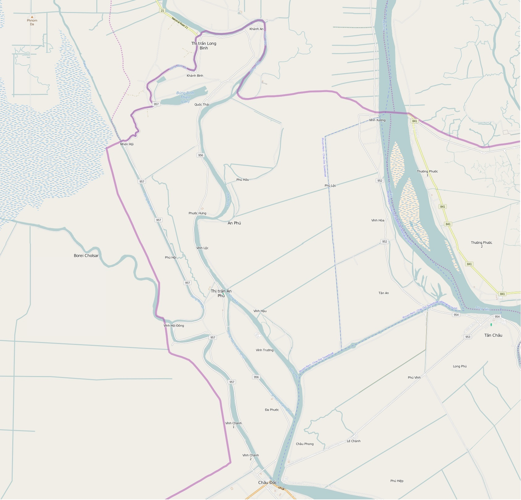 An Phu district map. Bản đồ huyện An Phú tỉnh An Giang.